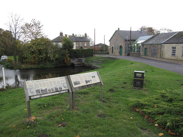 Prickwillow engine museum for details and dates when the engines are run.